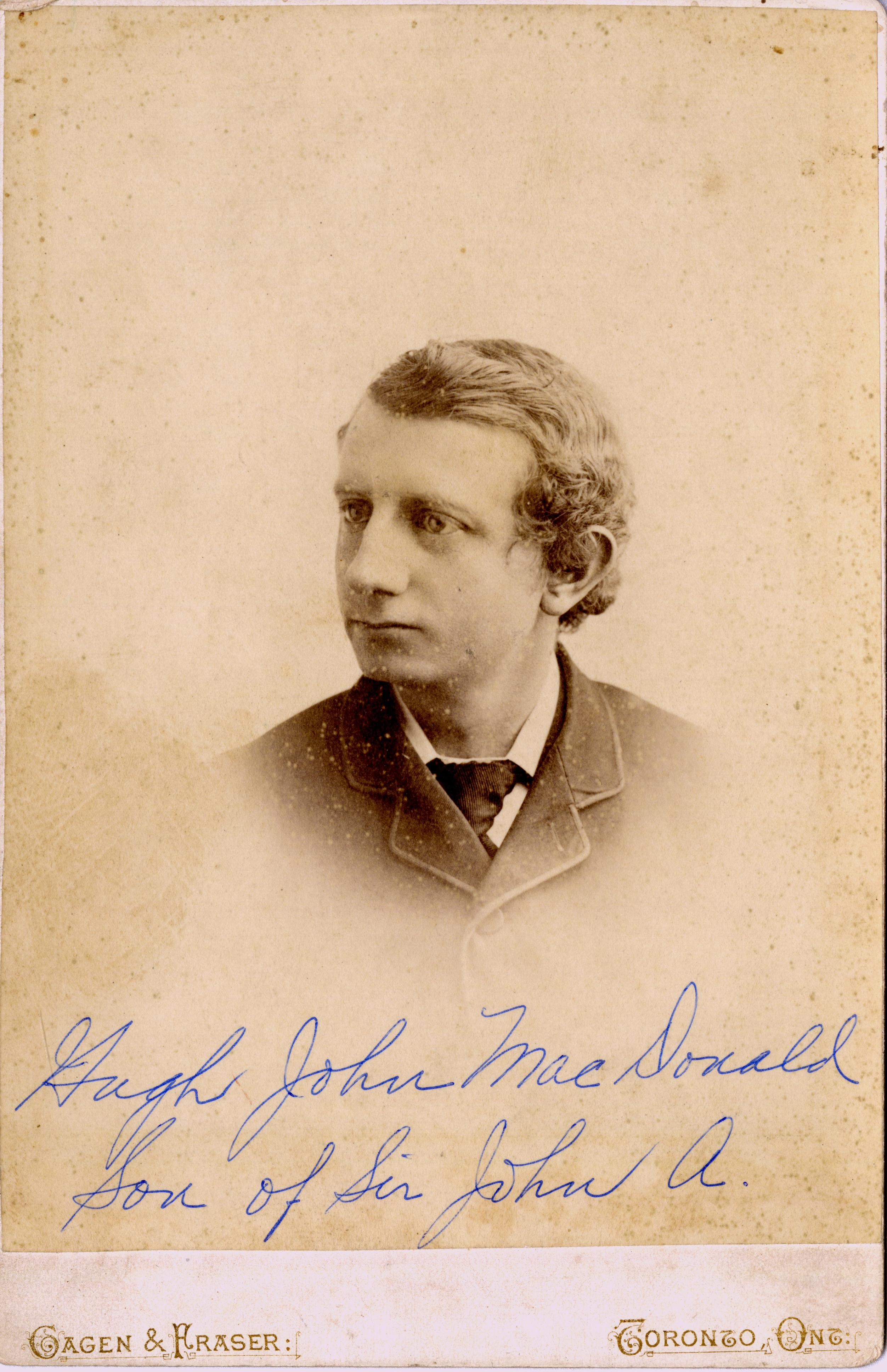 Hugh John MacDonald, Son of Sir John A. Macdonald, taken by Gagen & Fraser in 79 King St. West, Toronto. The son of Canada's first prime minister, Hugh also served as a Premier of Manitoba.